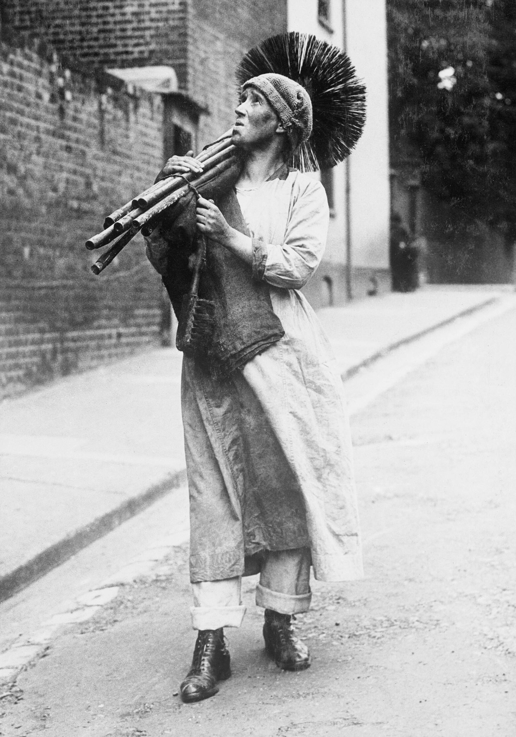 Women at work during the First World War Mrs Rosanna Forster from Kent is a chimney sweep, carrying on her husband's business while he serves abroad. Here, she walks along a road, her brooms over her shoulder.